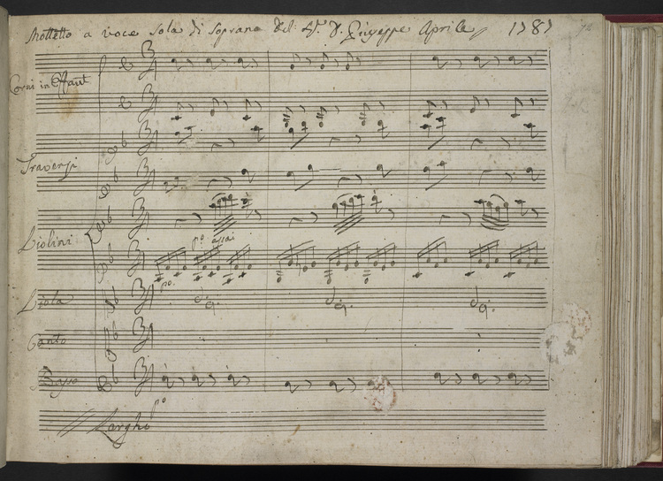 A handwritten page from the manuscript score of Placidi venti ameni, possibly written in the author's own hand. Held and digitised by the British Library.